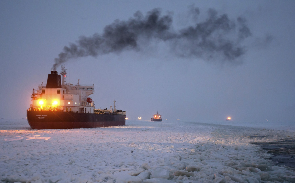 “Vaigach nuclear icebreaker leading ships through Gulf of Finland”. A caravan of ships being led by the Vaigach nuclear powered icebreaker through the Gulf of Finland.